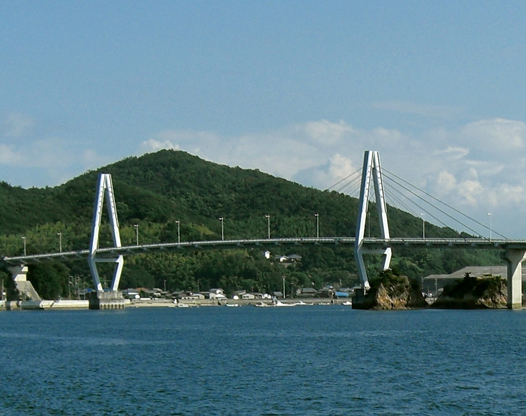 The Yuge bridge in Ochi District, Ehime Prefecture, Japan